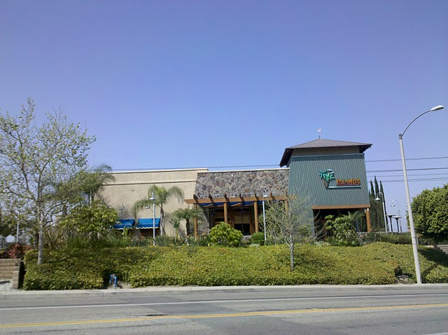 This is an Islands restaurant in Anaheim Hills